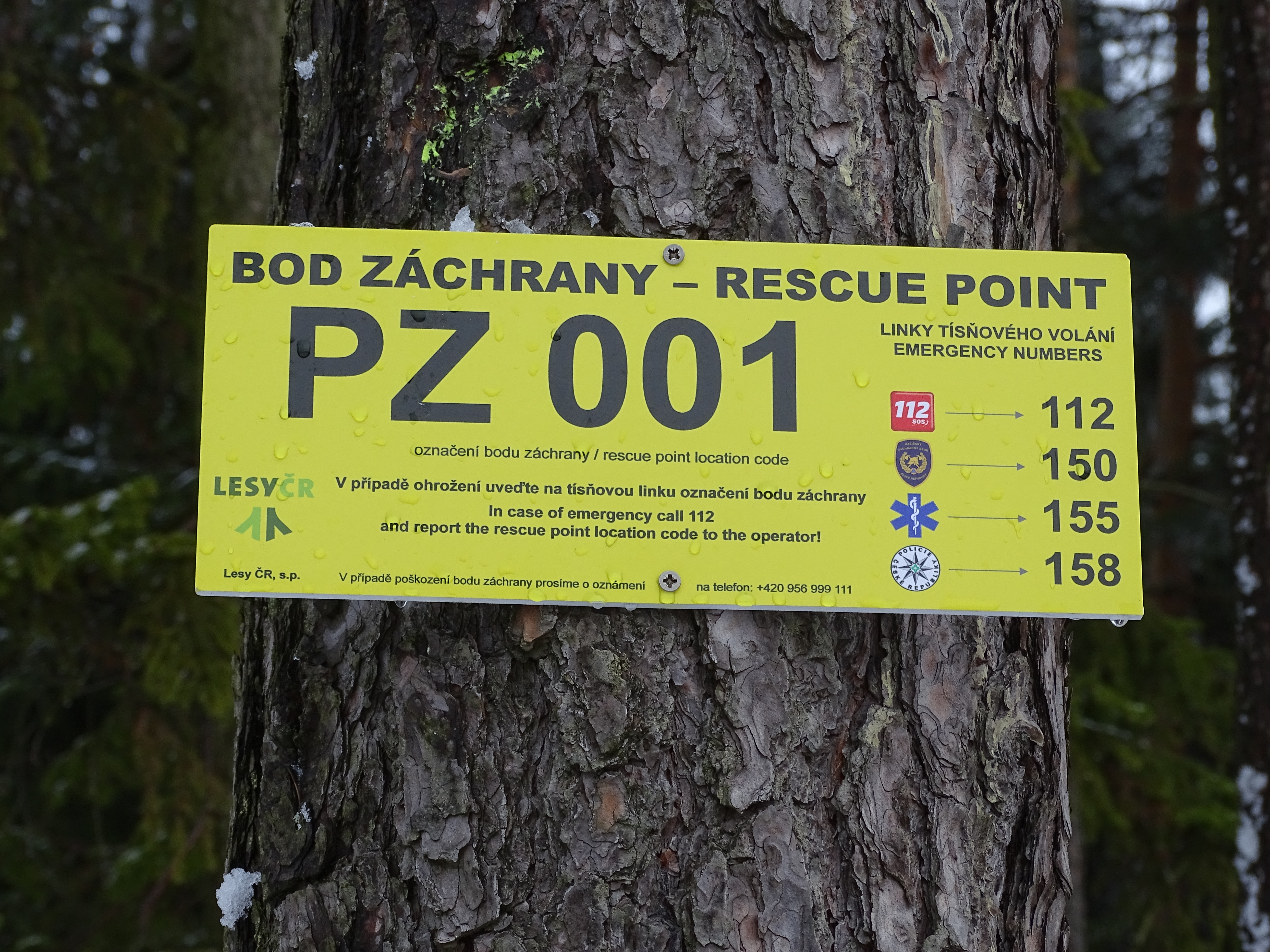 Mníšek pod Brdy, Prague-West District, Central Bohemian Region, Czechia. Hřebeny hills, a car park near the road II/116. A rescue point sign.